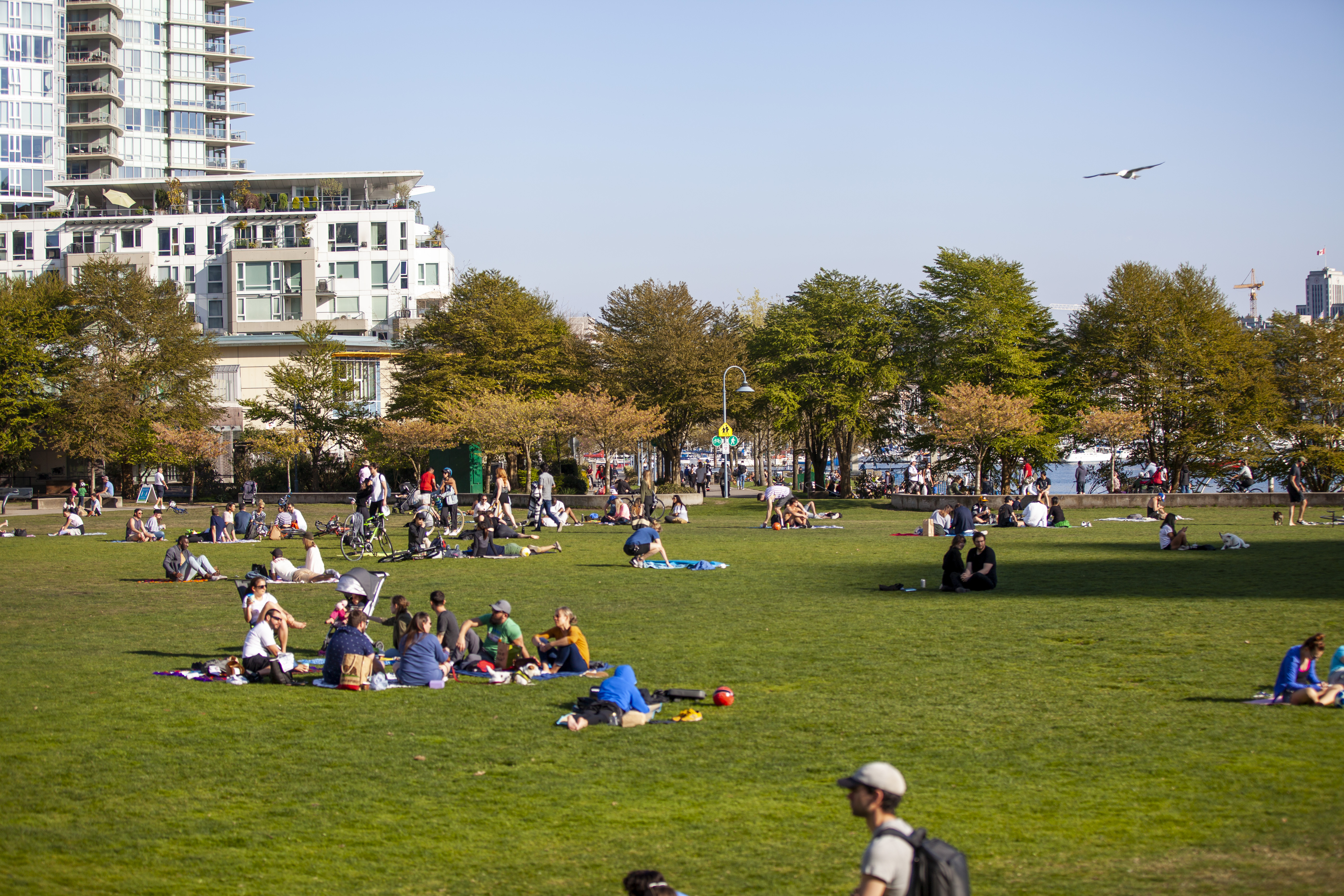 David Lam Park, Yaletown Vancouver during coronavirus pandemic